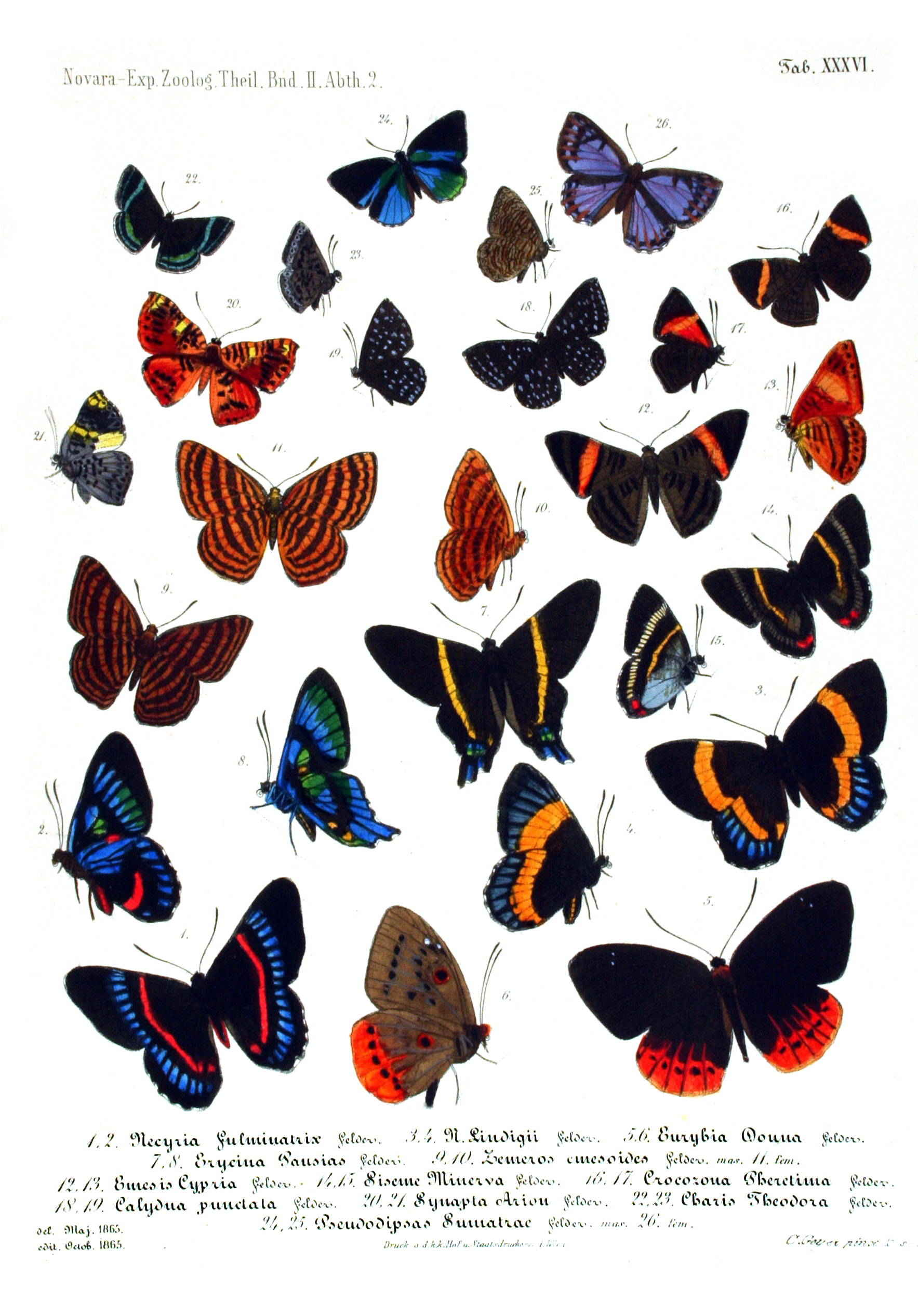 Reise der Österreichischen Fregatte Novara um die Erde in den Jahren 1857, 1858, 1859 unter den Befehlen des Commodore B. von Wüllerstorf-Urbair. (1864) Zoologischer Theil. 2. Band. Zweite Abteilung: Lepidoptera. Tafel XXXVI. Riodinidae Necyria fulminatrix synonym for Necyria bellona manco Saunders, 1859 Necyria lindigii synonym for Necyria bellona manco Saunders, 1859 Eurybia donna C. & R. Felder, 1862 Erycina pausias synonym for Ancyluris inca huascar (Saunders, 1859) Zemeros emesoides C. & R. Felder, 1860 Emesis cypria C. & R. Felder, 1861 Siseme minerva synonym for Siseme aristoteles minerva C. & R. Felder, 1865 Crocozona pheretima C. Felder & R. Felder, 1865 Calydna punctata synonym for Echydna punctata (C. & R. Felder, 1861) Synapta arion synonym for Symmachia arion(C. & R. Felder, 1865) Charis theodora synonym for Chalodeta theodora (C. & R. Felder, 1862) Pseudodipsas sumatrae synonym for Poritia sumatrae (C. & R. Felder, 1865) (Lycaeinidae)